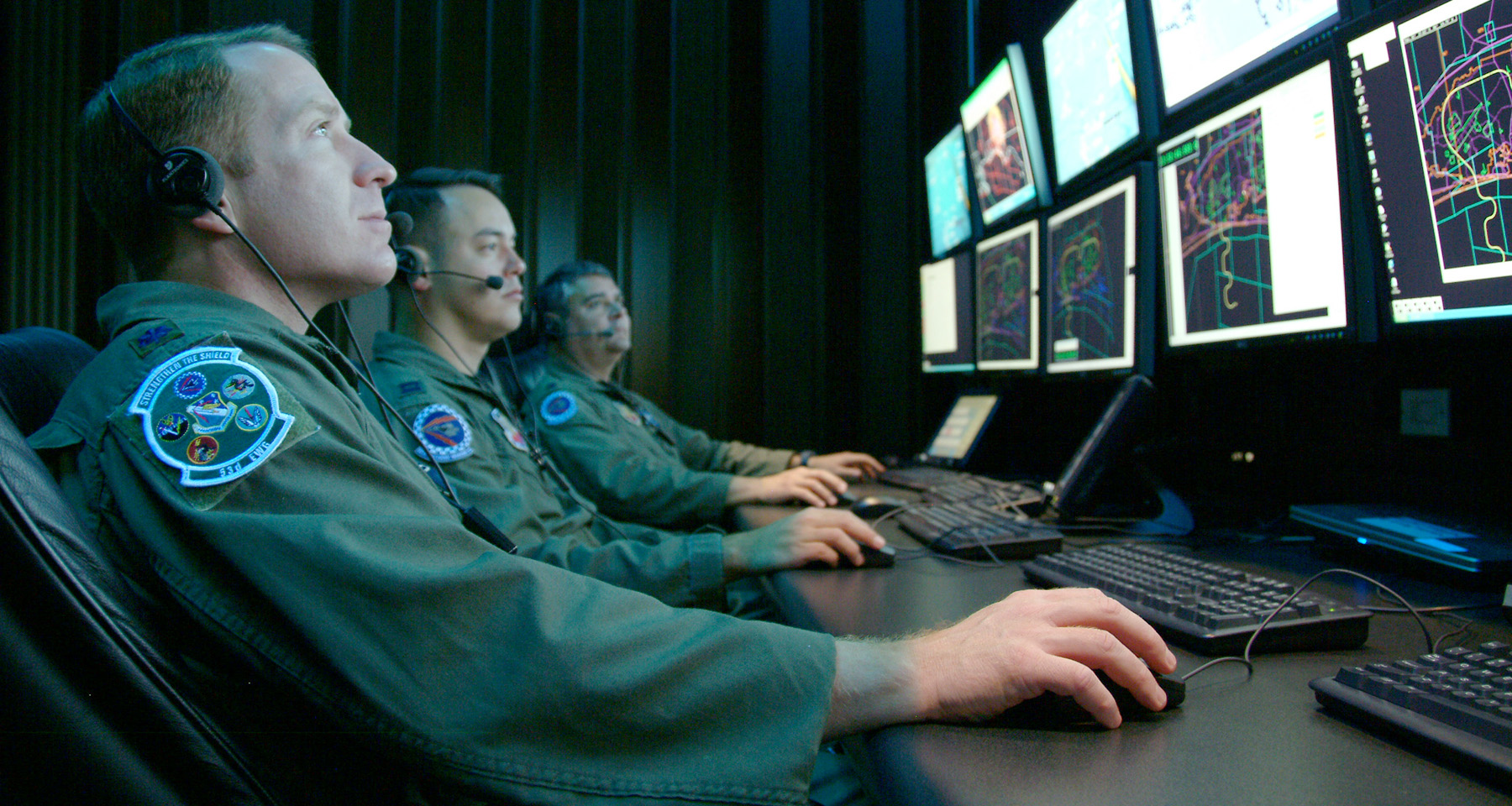 Original caption: Lt. Col. Tim Sands (from left), Capt. Jon Smith and Lt. Col. John Arnold monitor a simulated test April 16 in the Central Control Facility at Eglin Air Force Base, Fla. They use the Central Control Facility to oversee electronic warfare mission data flight testing. Portions of their missions may expand under the new Air Force Cyber Command. Colonel Sands is the 53th Electronic Warfare Group AFCYBER Transition Team Chief, Captain Smith is the 36th Electronic Warfare Squadron Suppression of Enemy Air Defensestest director, and Colonel Arnold is the 36th Electronic Warfare Squadron commander.